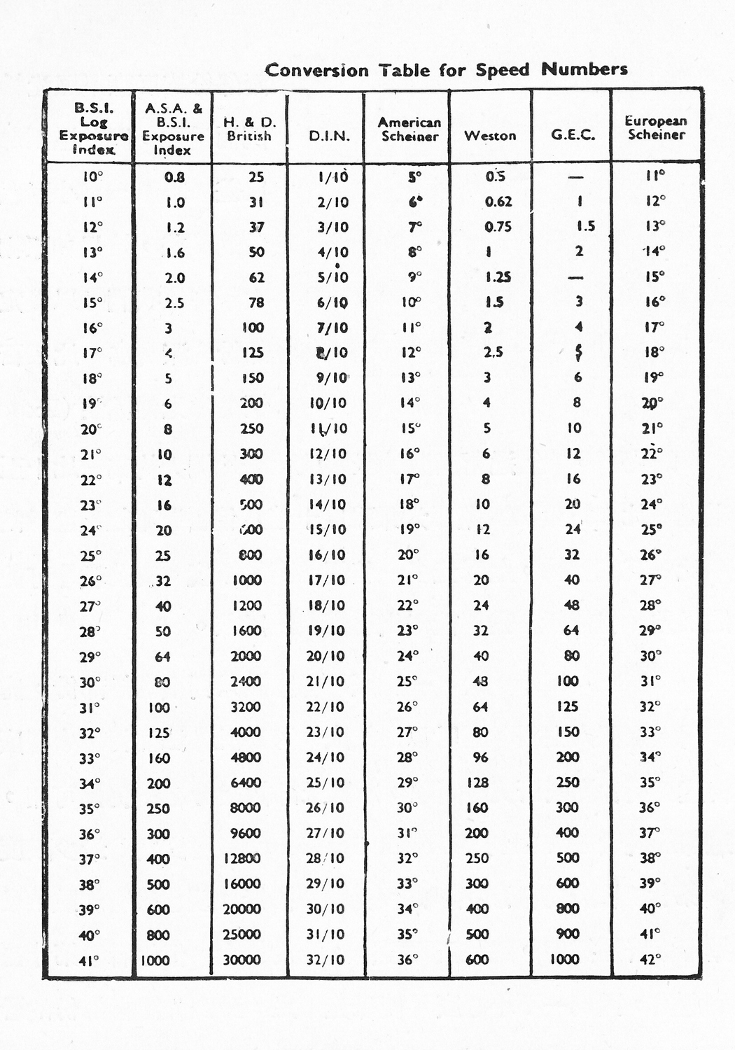 ASA DIN CONVERSION TABLE OF 1952, QUITE DIFFERENT FOR CURRENT CONVERSON